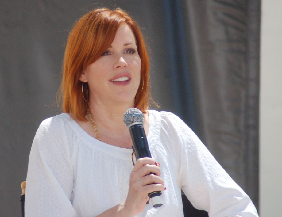 Molly Ringwald at the LA Festival of Books.